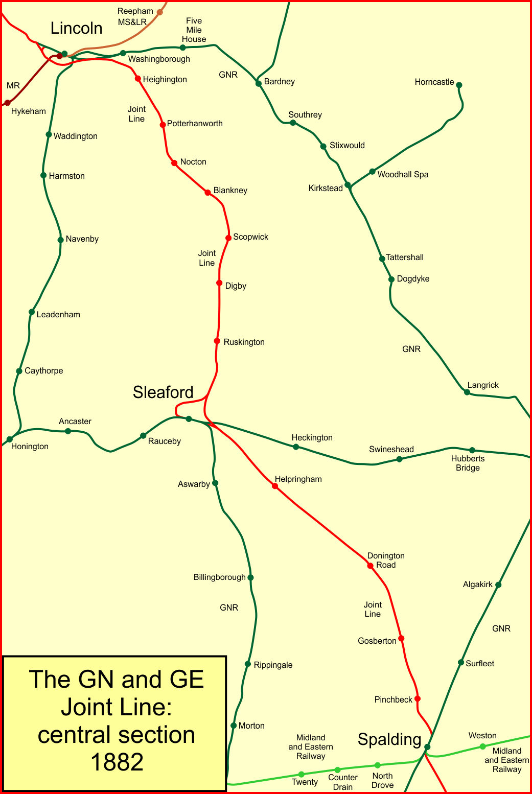 System map of the central part of the GN and GE Joint Line, England, in 1879